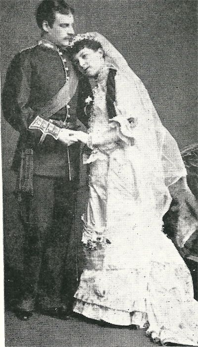 D'Oyly Carte Opera Company publicity photograph from The Sorcerer, 1878. This photo is often misidentified as being Alice May and George Bentham (and was so misidentified in the source that it is scanned from), but in fact it shows the replacement soprano, Giulia Warwick. See Gänzl, Kurt. "Here's one I cooked before: 'Miss Warwick'", Kurt Gänzl's blog, 30 April 2018.